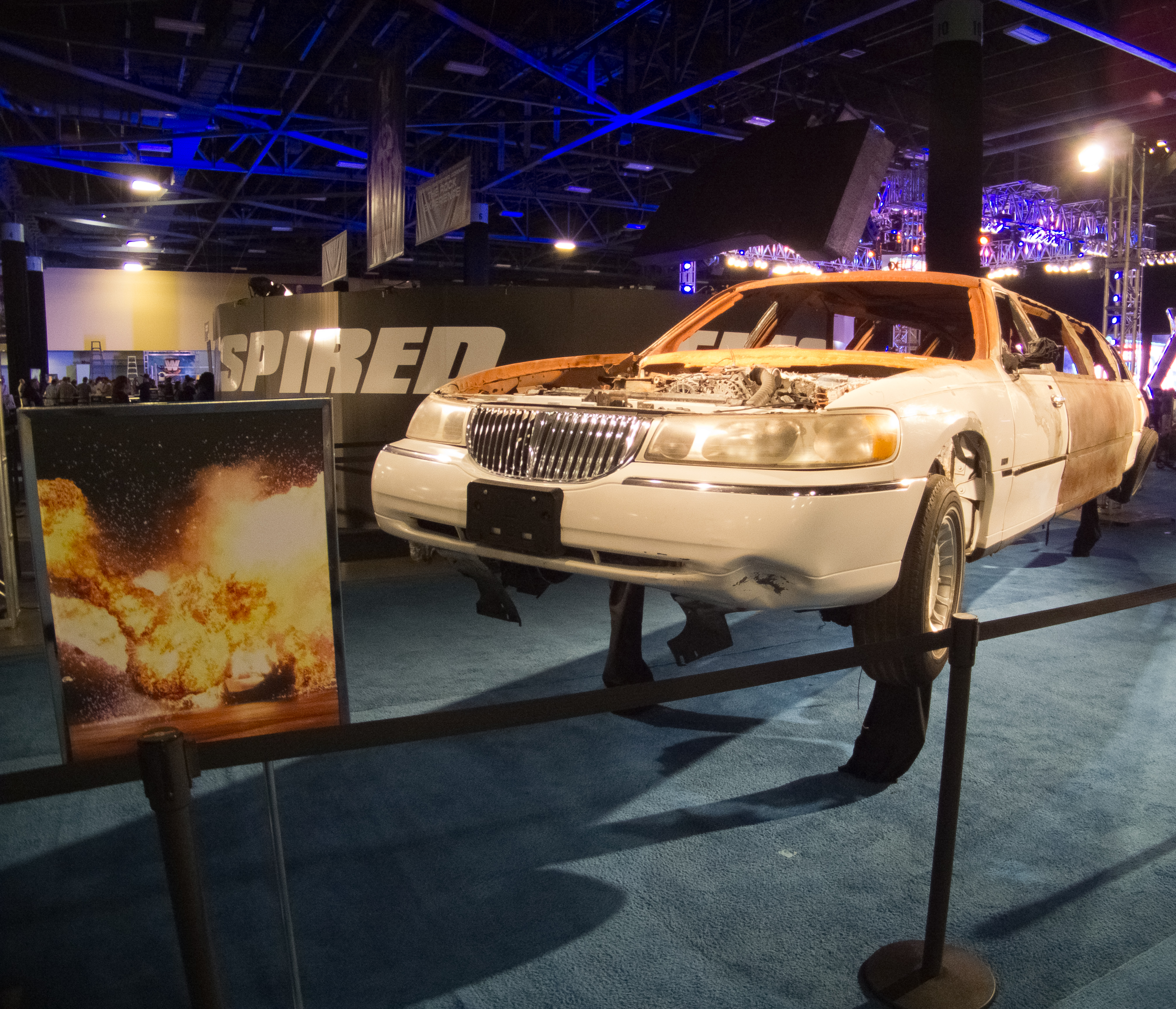 WWE Fan Axxess - Vince's Limo